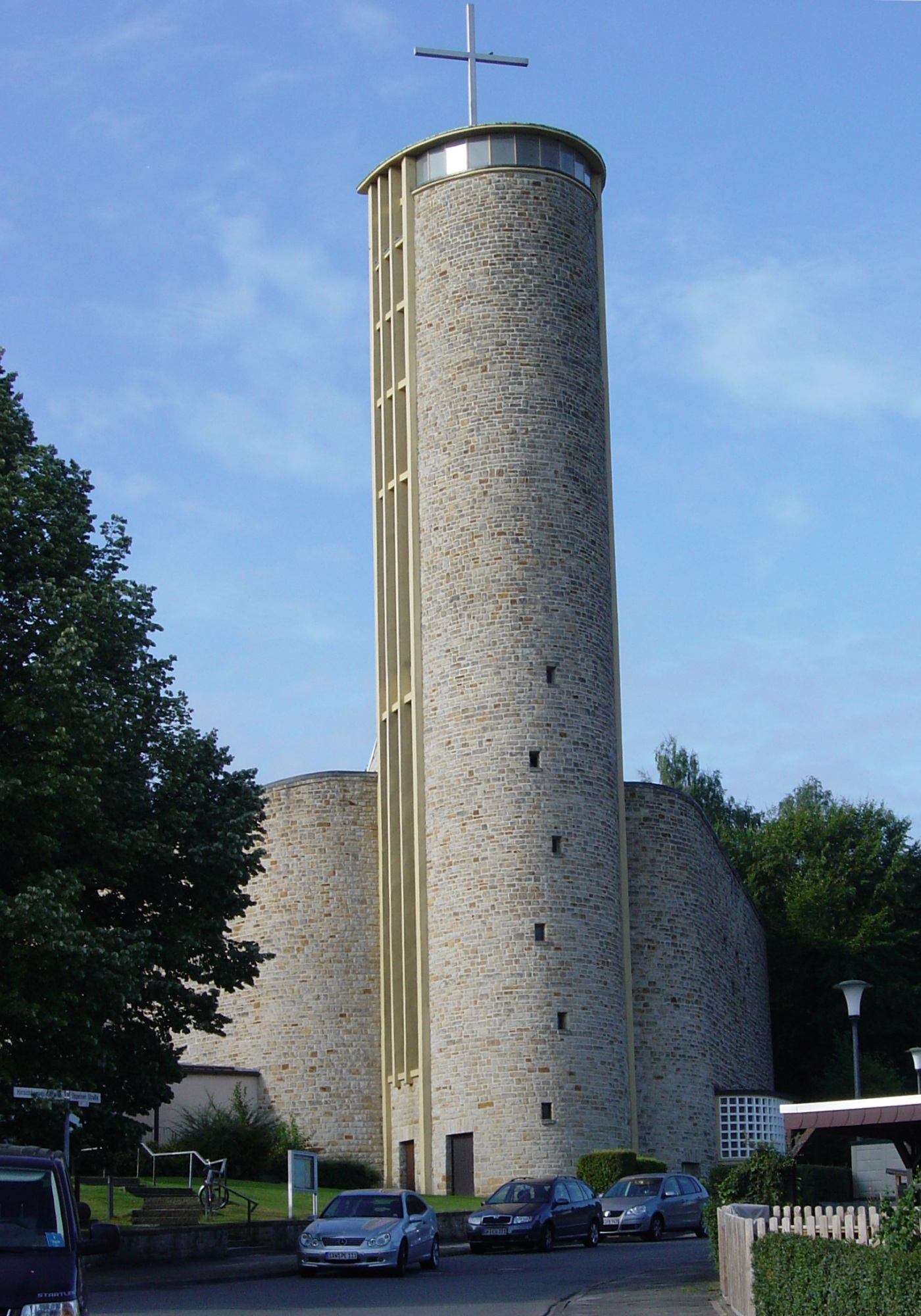 Roman Catholic St. Joseph church in Wolfsburg